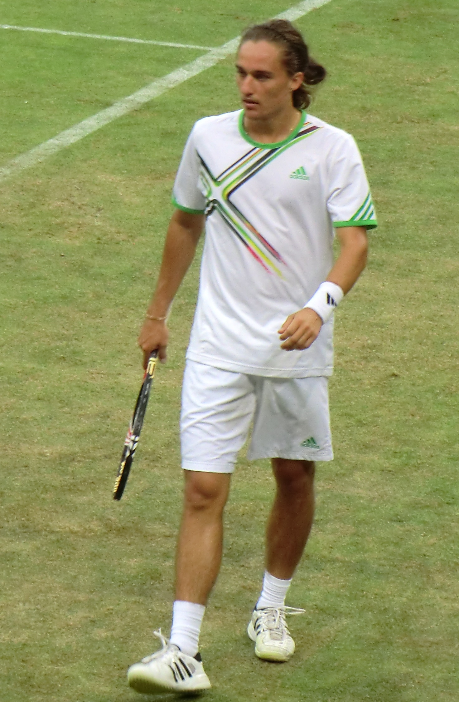 Alexandr Dolgopolov during the match versus Robin Haase at the Gerry Weber Open 2011 in Halle